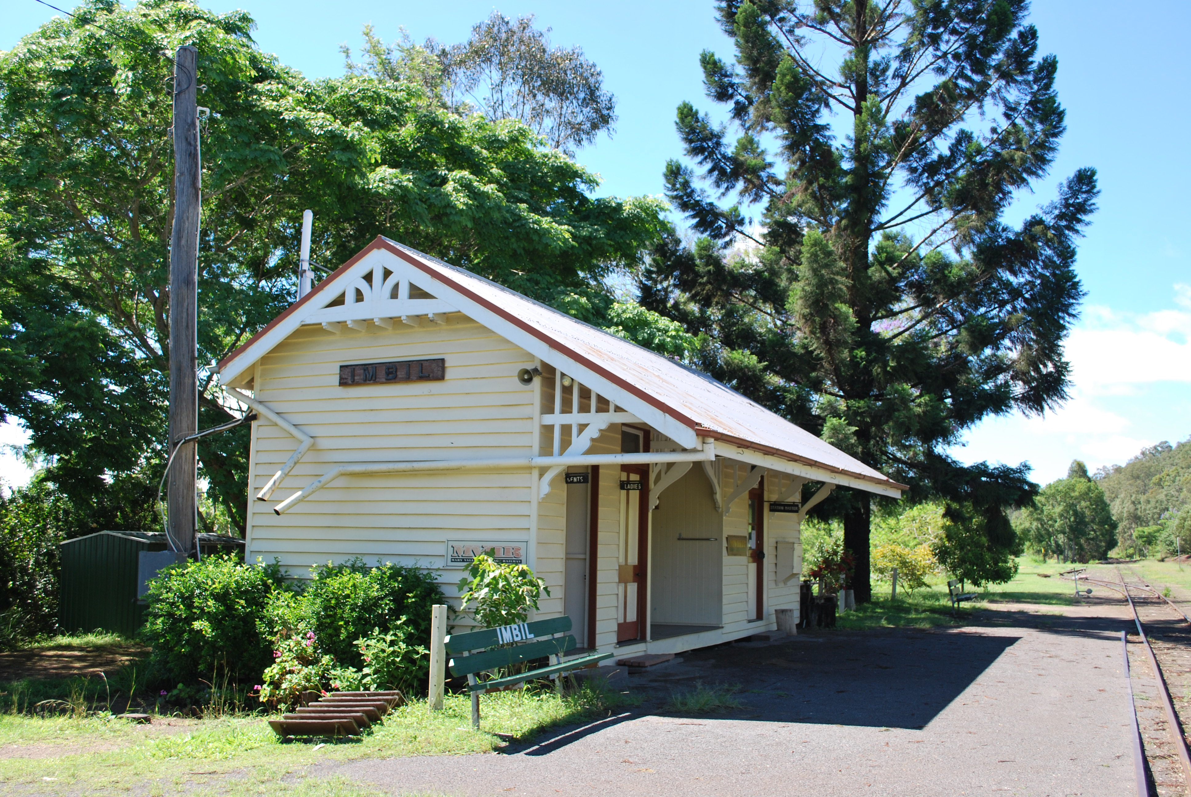 Railway station at Imbil, Queensland